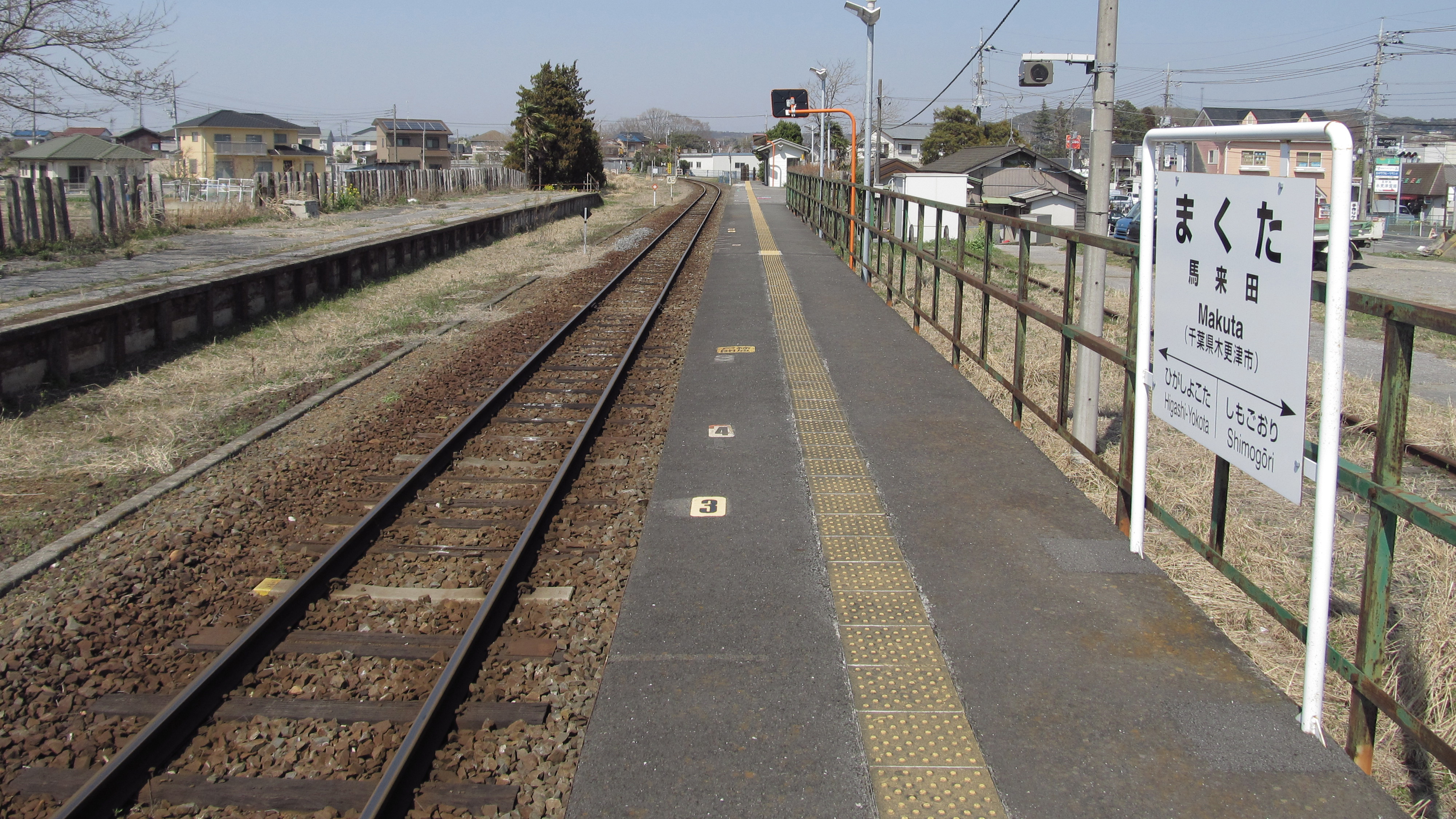 The platform at Makuta Station on the Kururi Line in Kisarazu city, Chiba prefecture, Japan